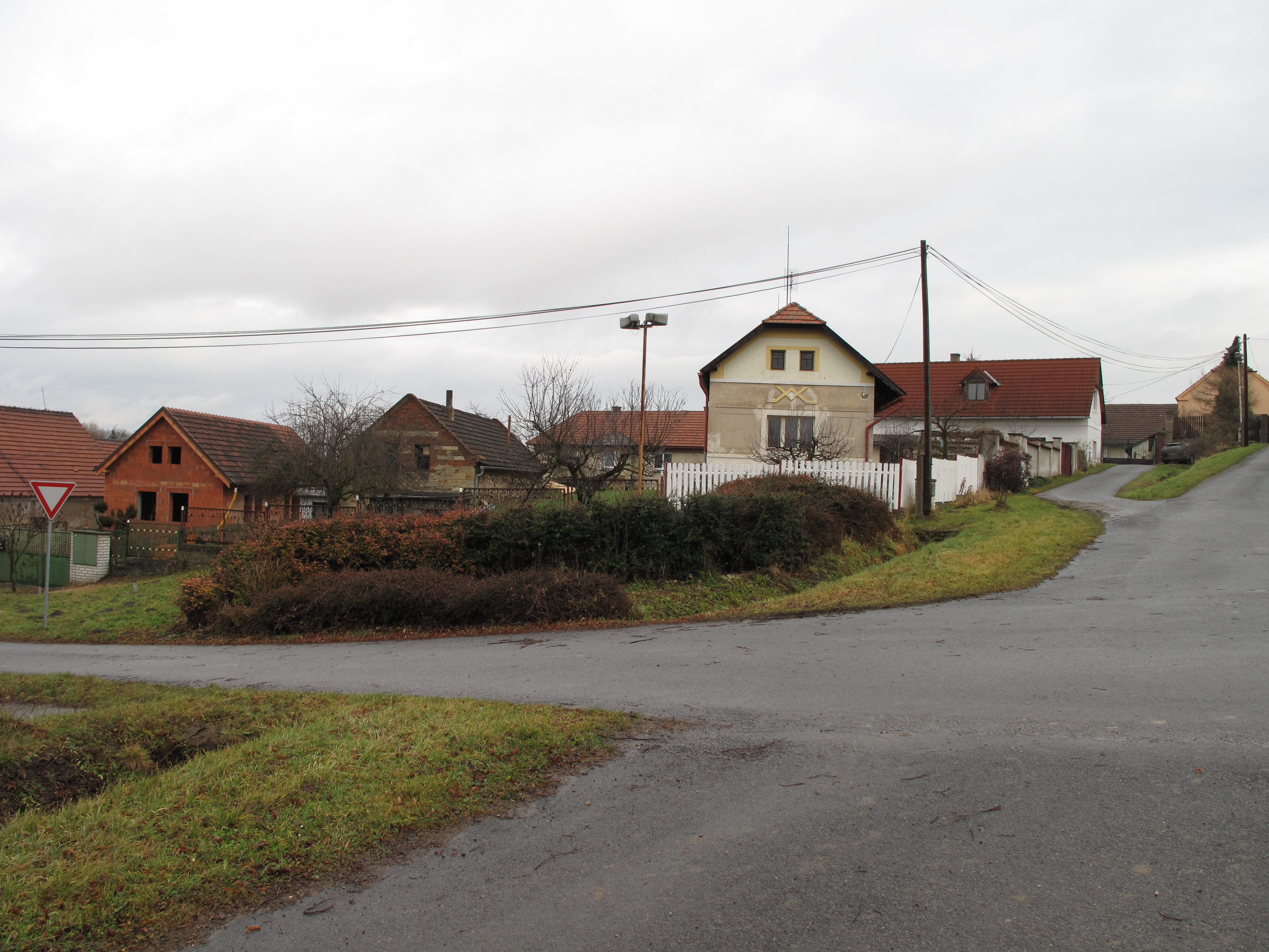 Village square in Kojovice village, Mladá Boleslav District, Czech Republic.